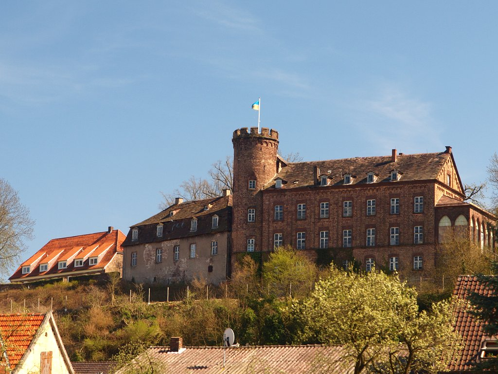 Castle Herstelle (built 1832)